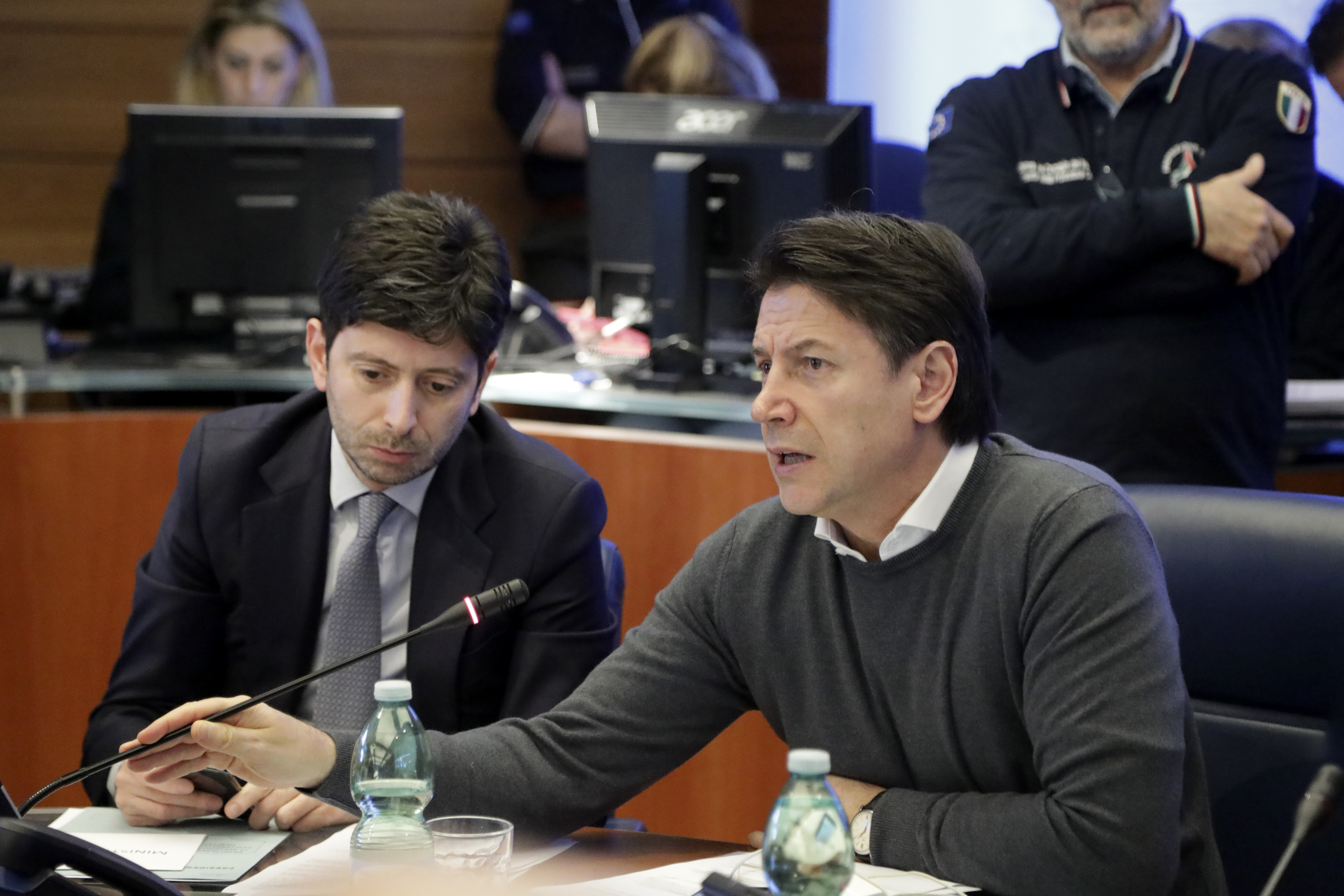 Roma, 23 febbraio 2020 – Il Presidente del Consiglio dei Ministri Giuseppe Conte coordina i lavori del Comitato Operativo della Protezione Civile. Partecipano anche i ministri Roberto Speranza e Paola De Micheli.